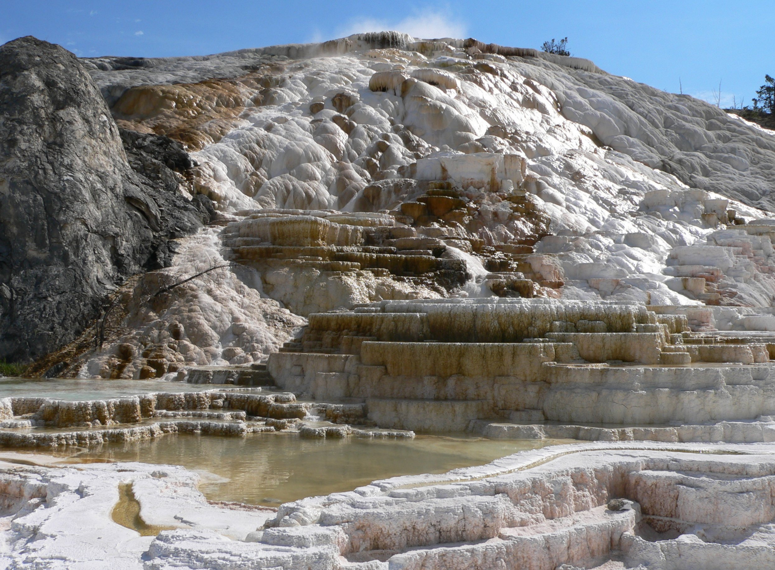 Yellowstone National Park: Mammoth Hot Springs, travertine terraces